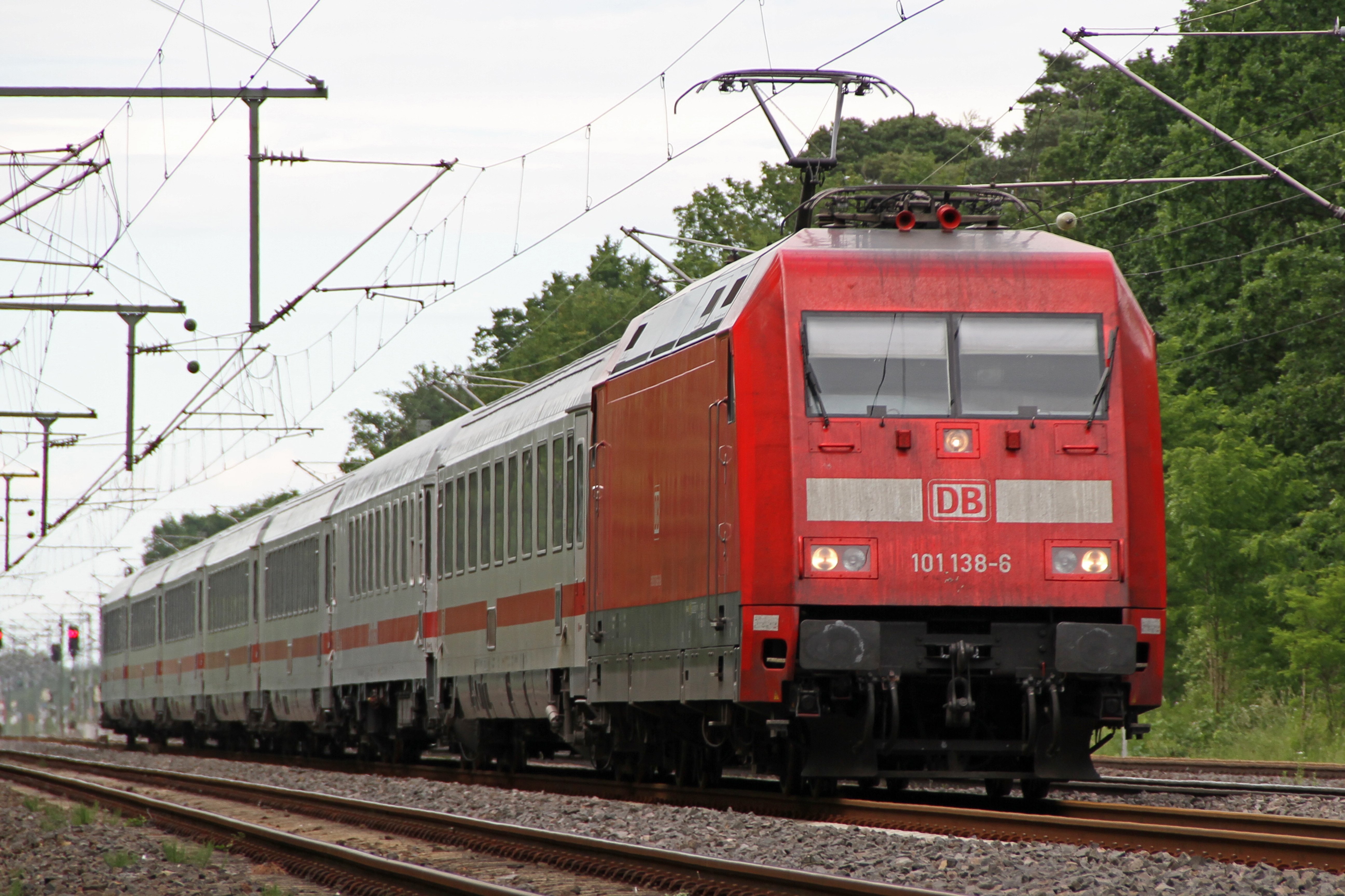 A DB class 101 pulls an Intercity train, near Erzhausen